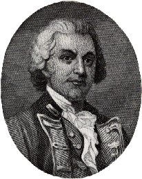 Engraved portrait of Silas Talbot, the second captain of the :USS Constitution